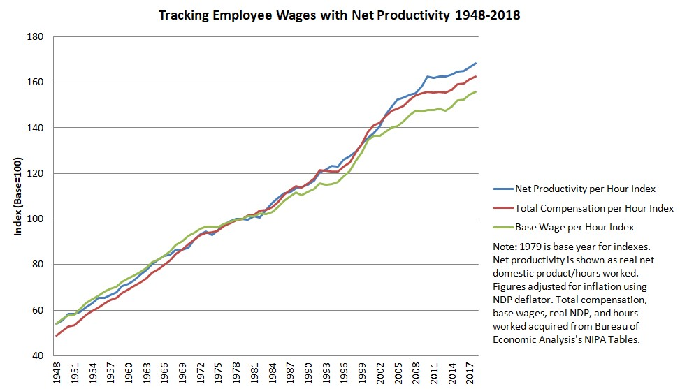 Total compensation per hour, base wage per hour, and real NDP per hour. Acquired from Bureau of Economic Analysis. Adjusted for inflation using NDP deflator.